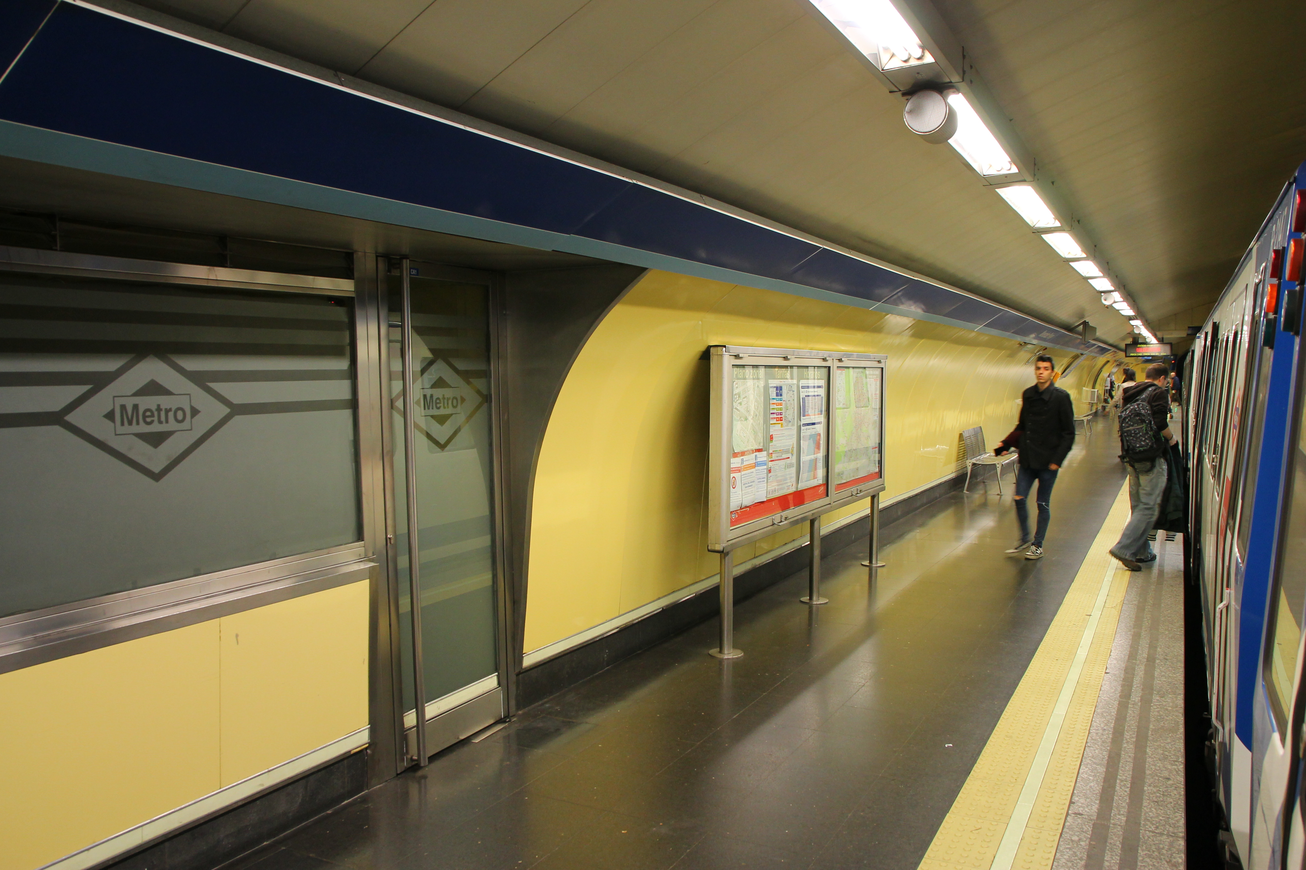 Menendéz Pelayo station. Madrid Metro.